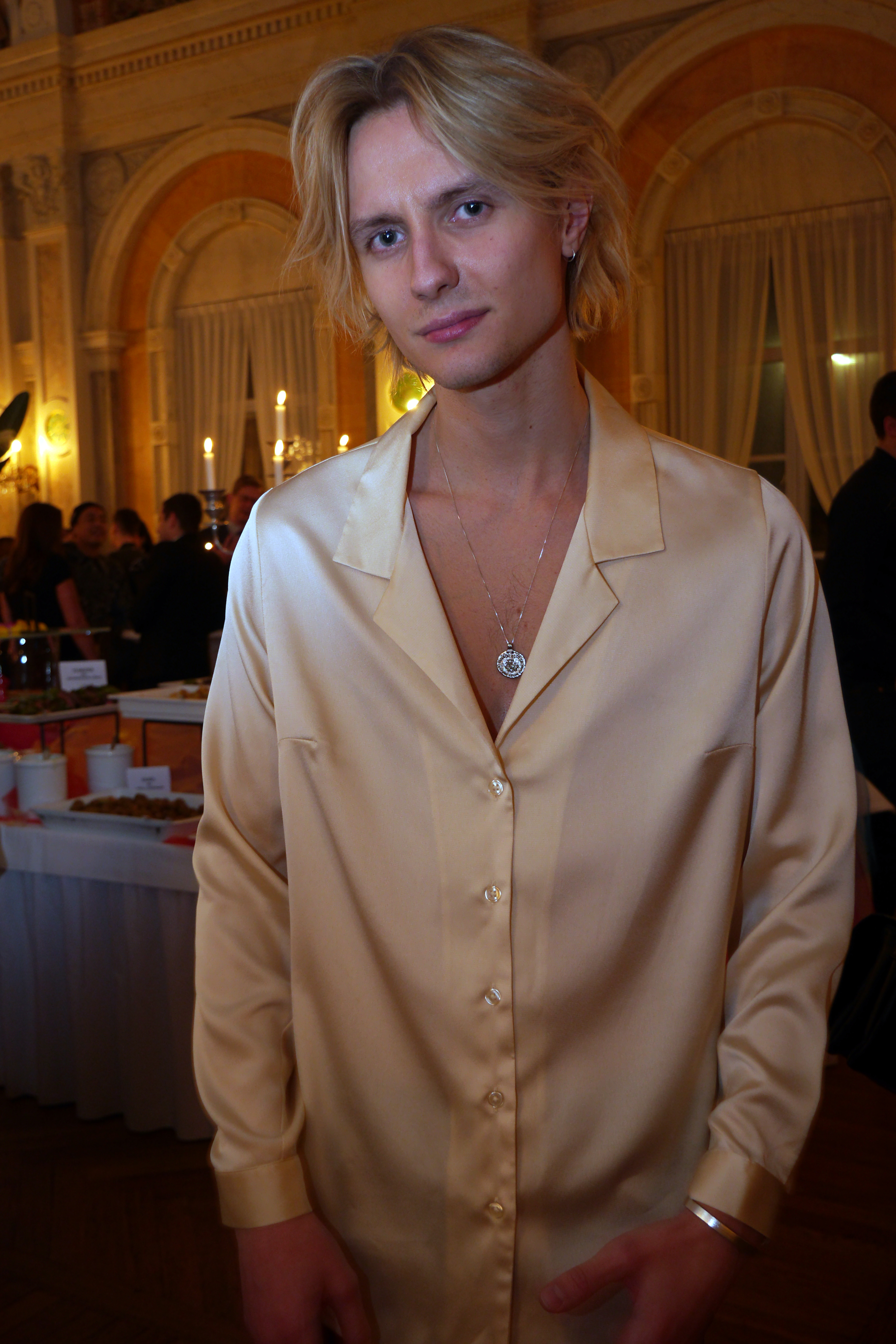 Melodifestivalen 2019, part contest 2, Malmö, Sweden